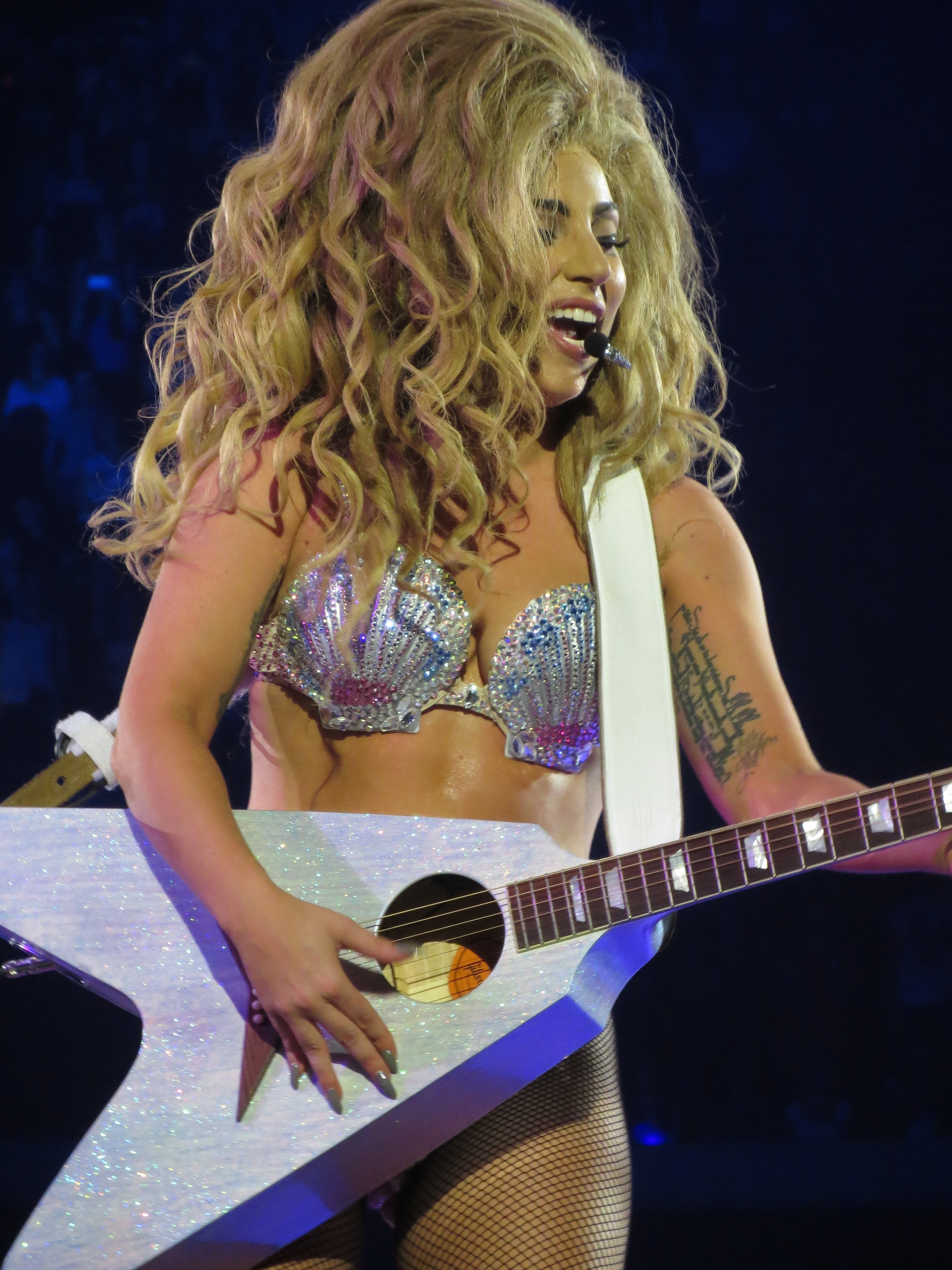 Lady Gaga performing at SEE Hydro in Glasgow, UK in Oct. 19, 2014.